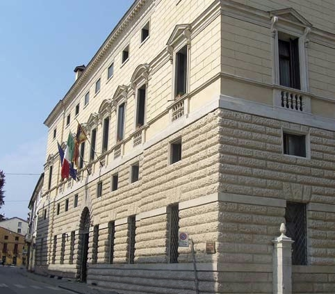 Palazzo Franceschini Folco, Vicenza, Italy.